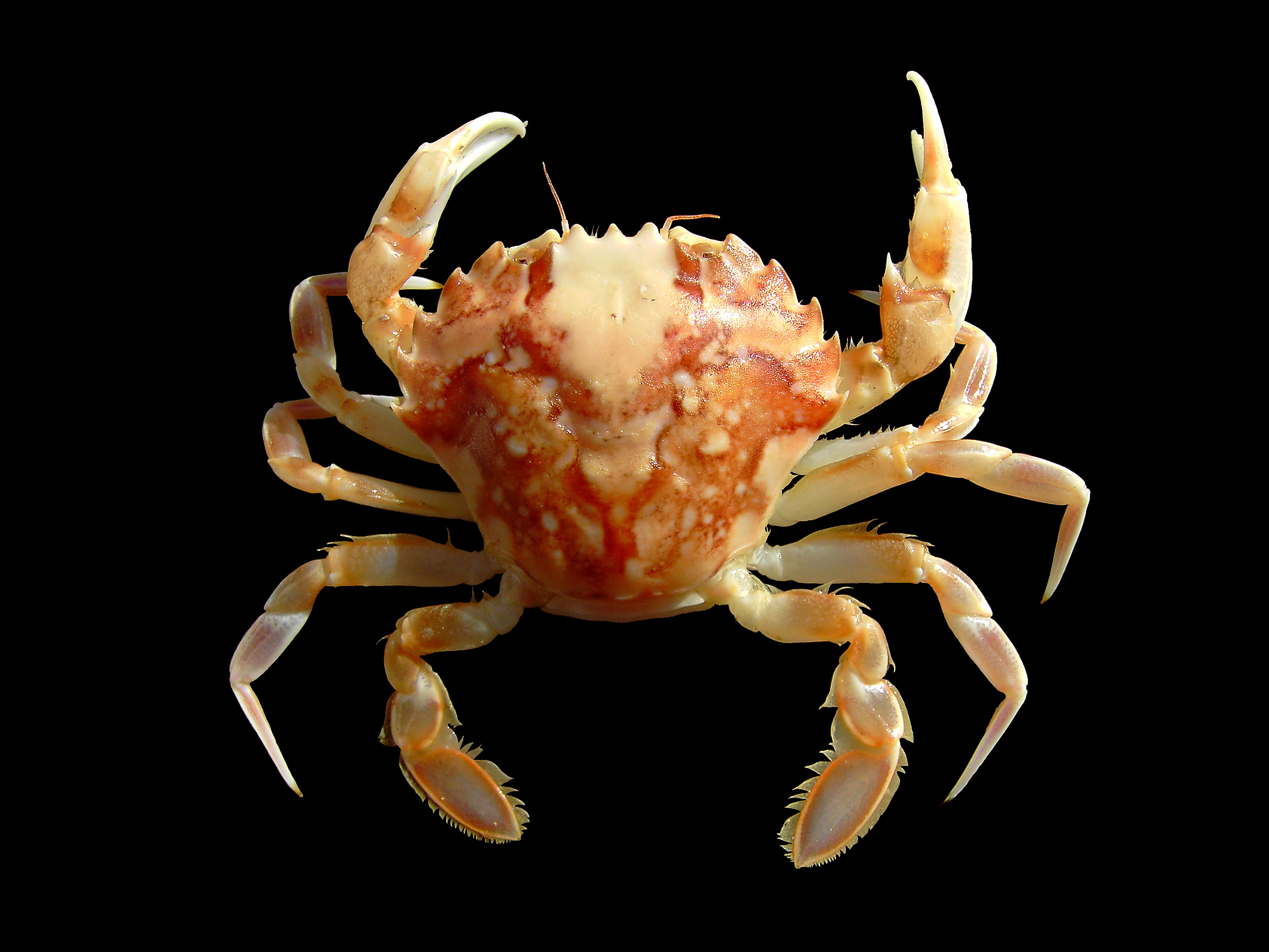 Marbled swimming crab from the Belgian coastal waters (Westhinder Bank) on board of RV Belgica.